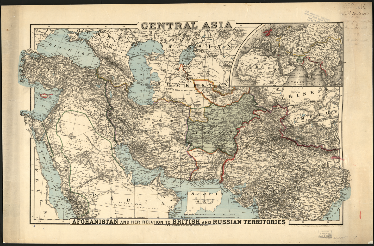 This 1885 map shows Asia from the eastern littoral of the Mediterranean to western China and the Indian subcontinent. An inset in the upper right depicts the region in the broader context of Asia, Europe, and Africa. A focal point of the map is Afghanistan, where, in what was called “the Great Game,” the Russian and British empires competed for influence throughout most of the 19th century. The British feared that the Russians, who annexed large parts of Central Asia in the 1860s and 1870s, would use Afghanistan as a base from which to threaten British India. The central region of Arabia is described as “uninterrupted desert from Mecca to Oman.” The map has two distance scales, one in English statute miles and another in Russian versts. Intended for American audiences, it also shows, at the bottom center, the U.S. states of Indiana and Ohio, which are drawn to scale as a way of comparing distances in the region with those in the United States. The map was issued by the G.W. & C.B. Colton Company, which was owned by George Woolworth Colton (1827–1901) and Charles B. Colton (1832–1916), the sons of Joseph Hutchins Colton (1800–93), founder of the pioneering map publishing firm J.H. Colton & Company. Arabian Gulf; Arabian Peninsula; Balkan Peninsula; Himalaya Mountains; Persian Gulf